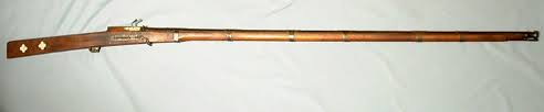 Traditional Sikh Toradar Matchlock Musket used during Sikh Empire